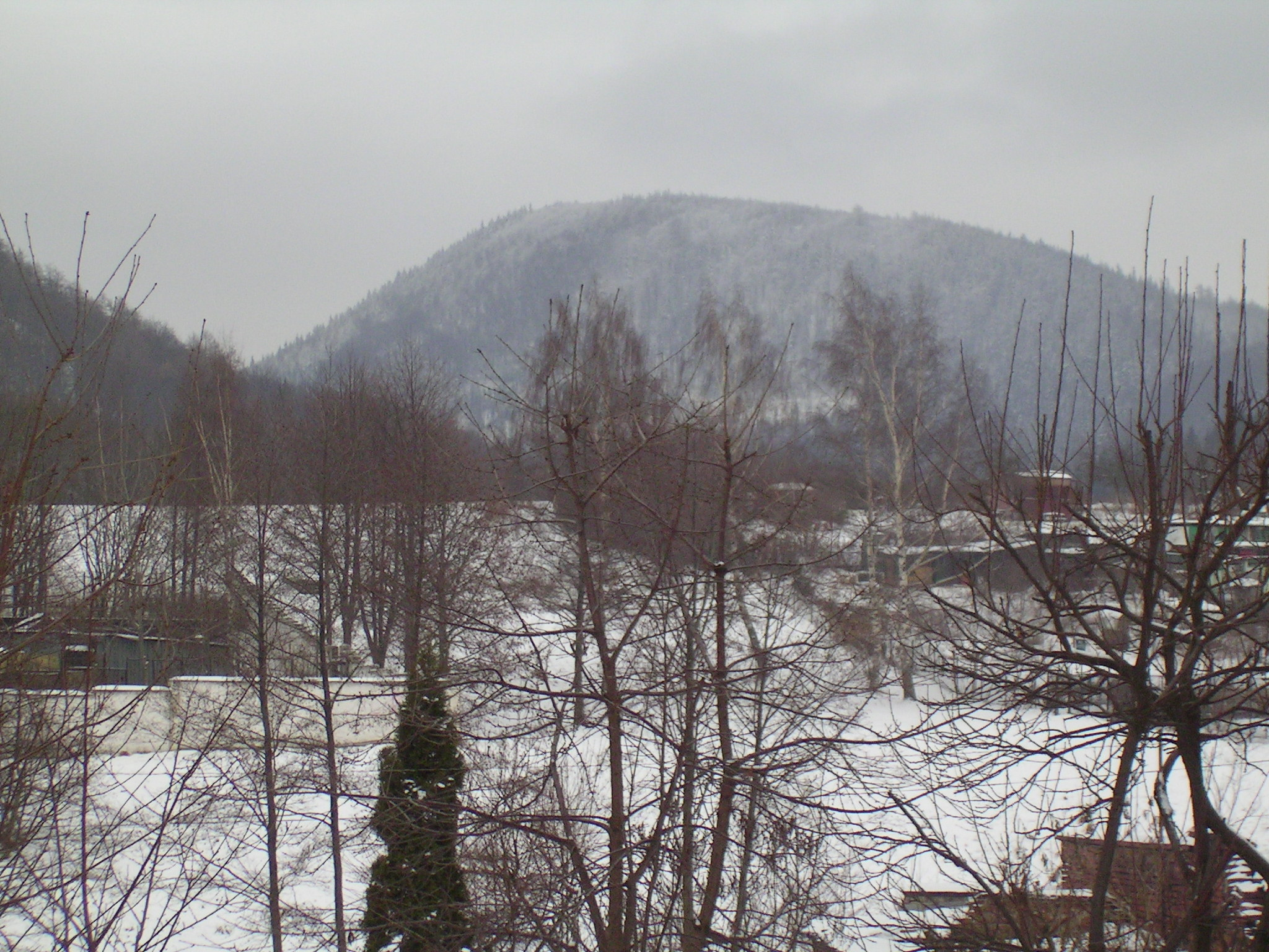 Borowa peak in Góry Wałbrzyskie as seen from Wałbrzych's district Podgórze